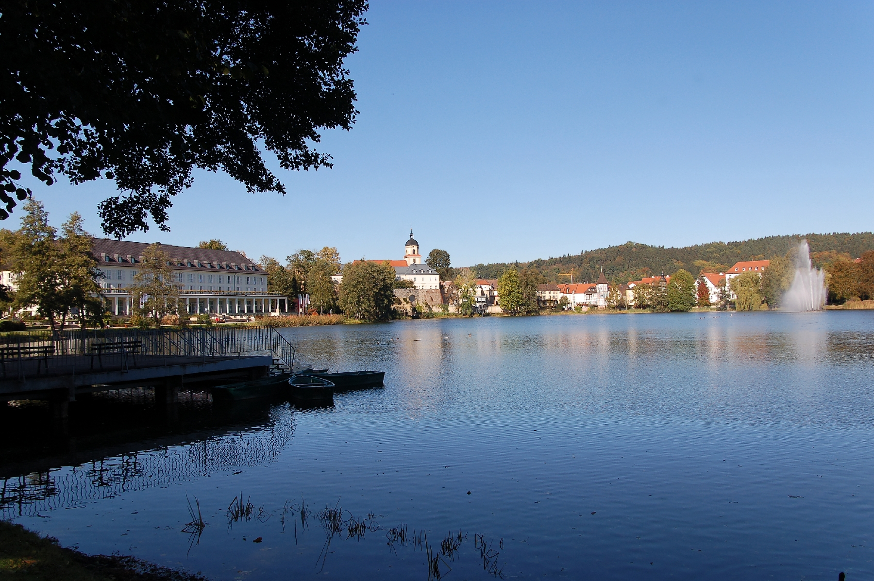 Bad Salzungen 2011